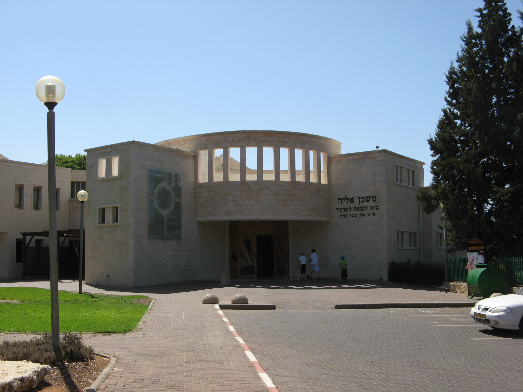 Central Shool in Karnei Shomron